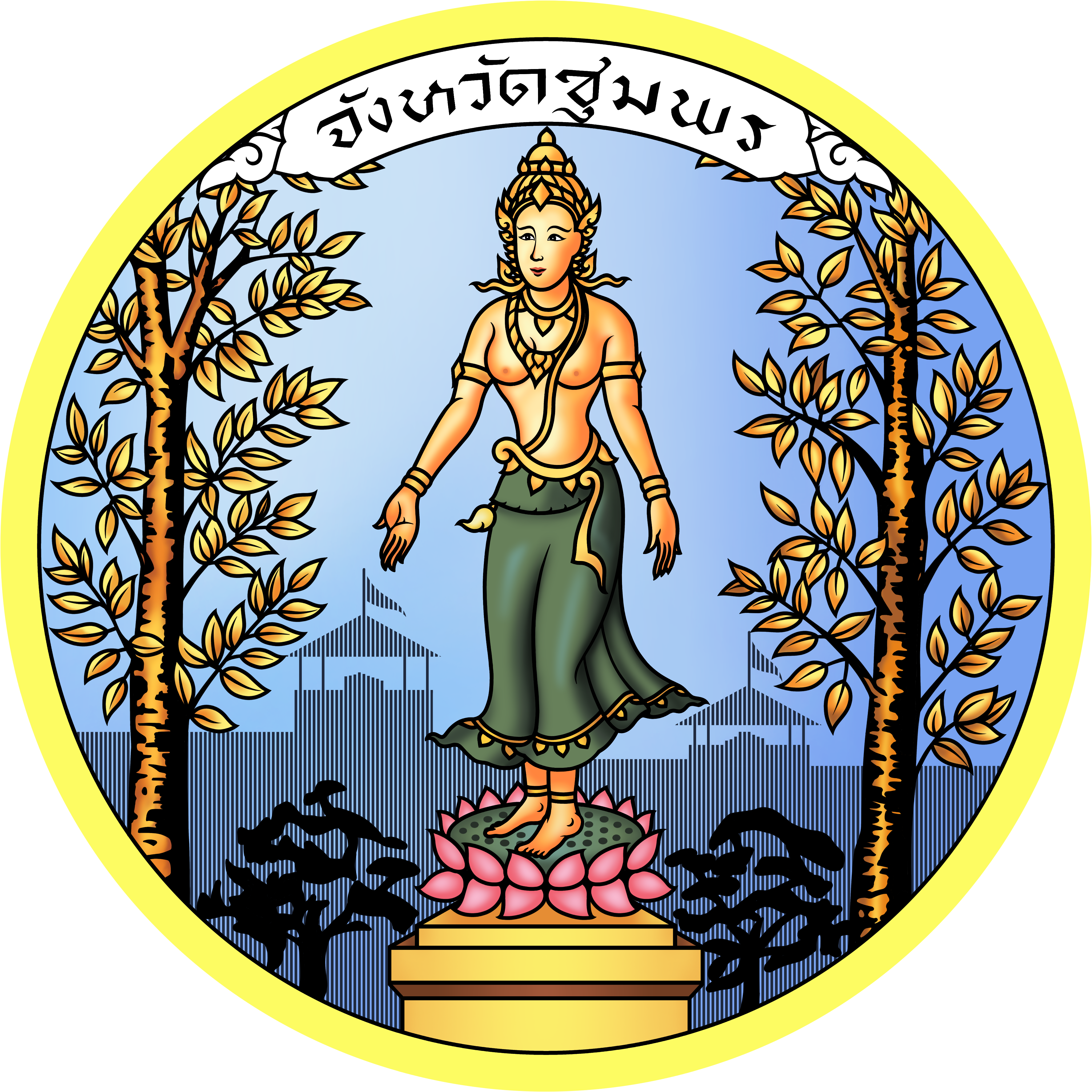 Provincial seal of Chachoengsao province.